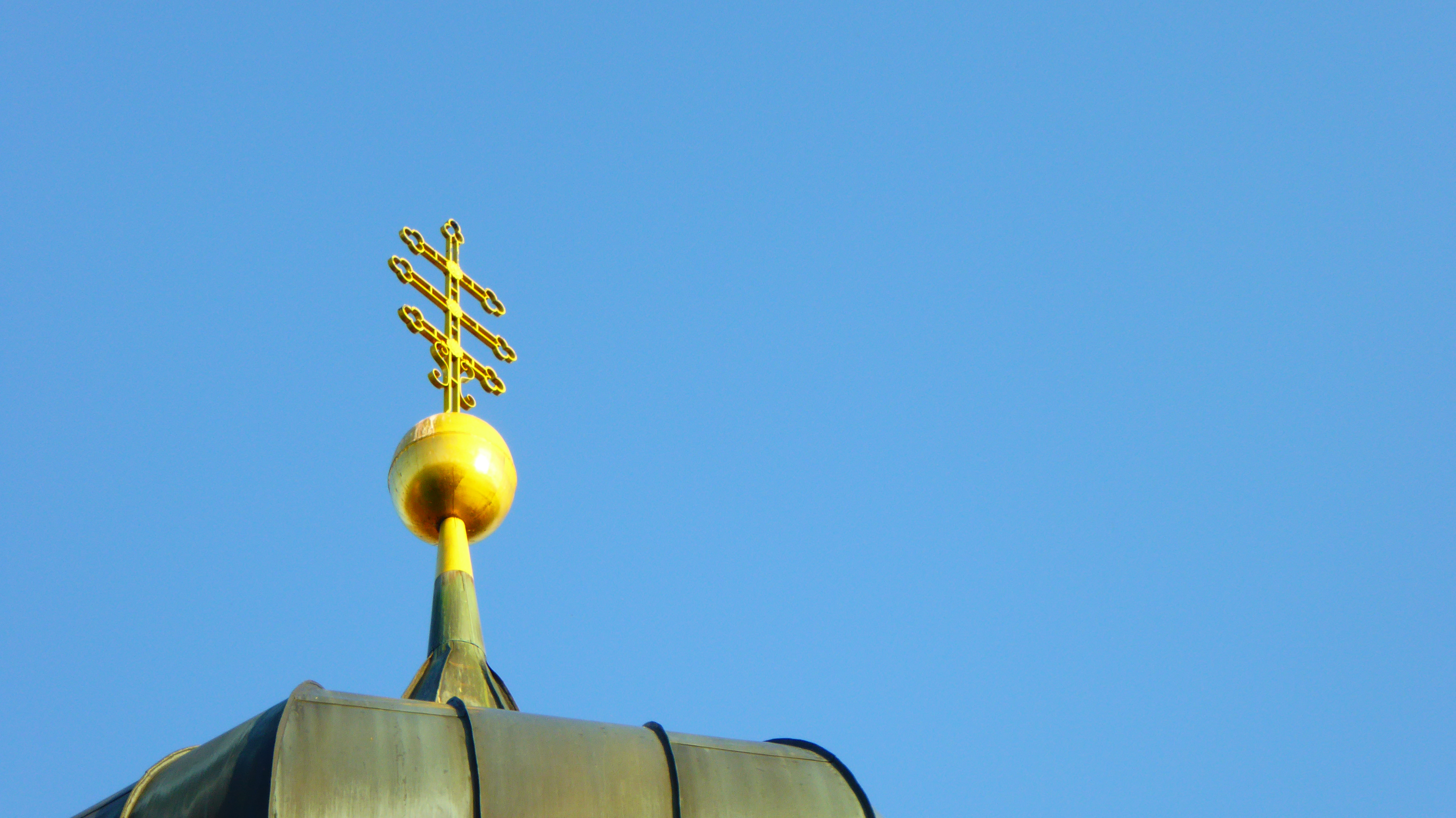 Cross on top of the tower of the church St.Jacob in Piesenkam / Bavaria shimmering in the setting sunThis is a photograph of an architectural monument.